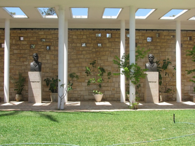 Moshav Avihayil, Settlements in Israel